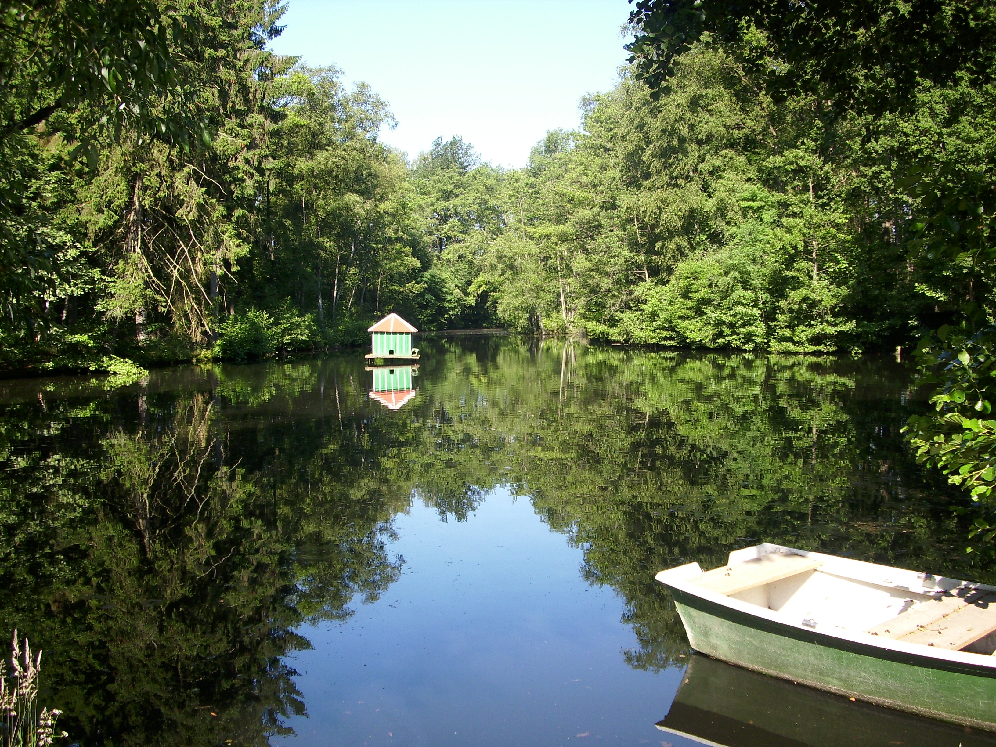 Duddenhausen, mill pond, Bücken, Lower Saxony, Germany